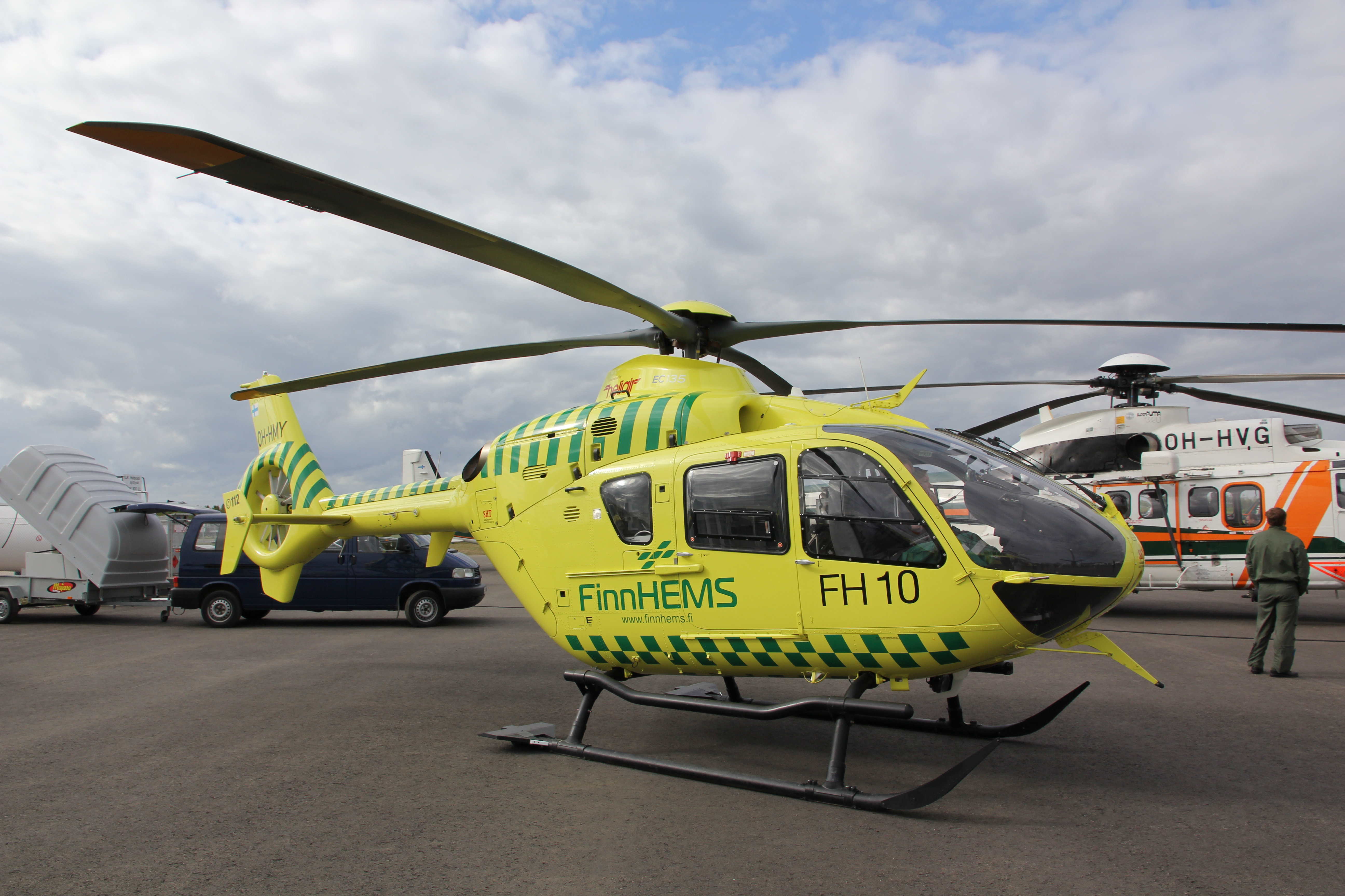 FinnHems Eurocopter EC135P2+ ambulance helicopter FH10 (OH-HMY) in Turku Airshow 2015.